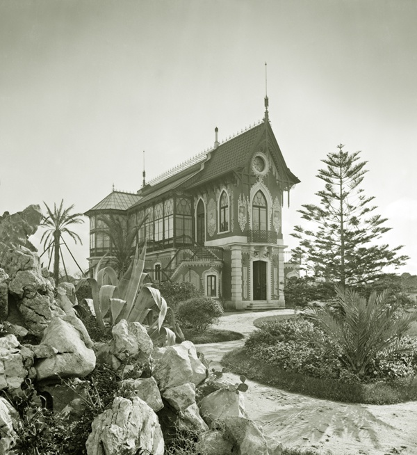 Relvas’ home-studio. Golegã. Portugal, 1872-1876, New toned print from collodion wet plate negative